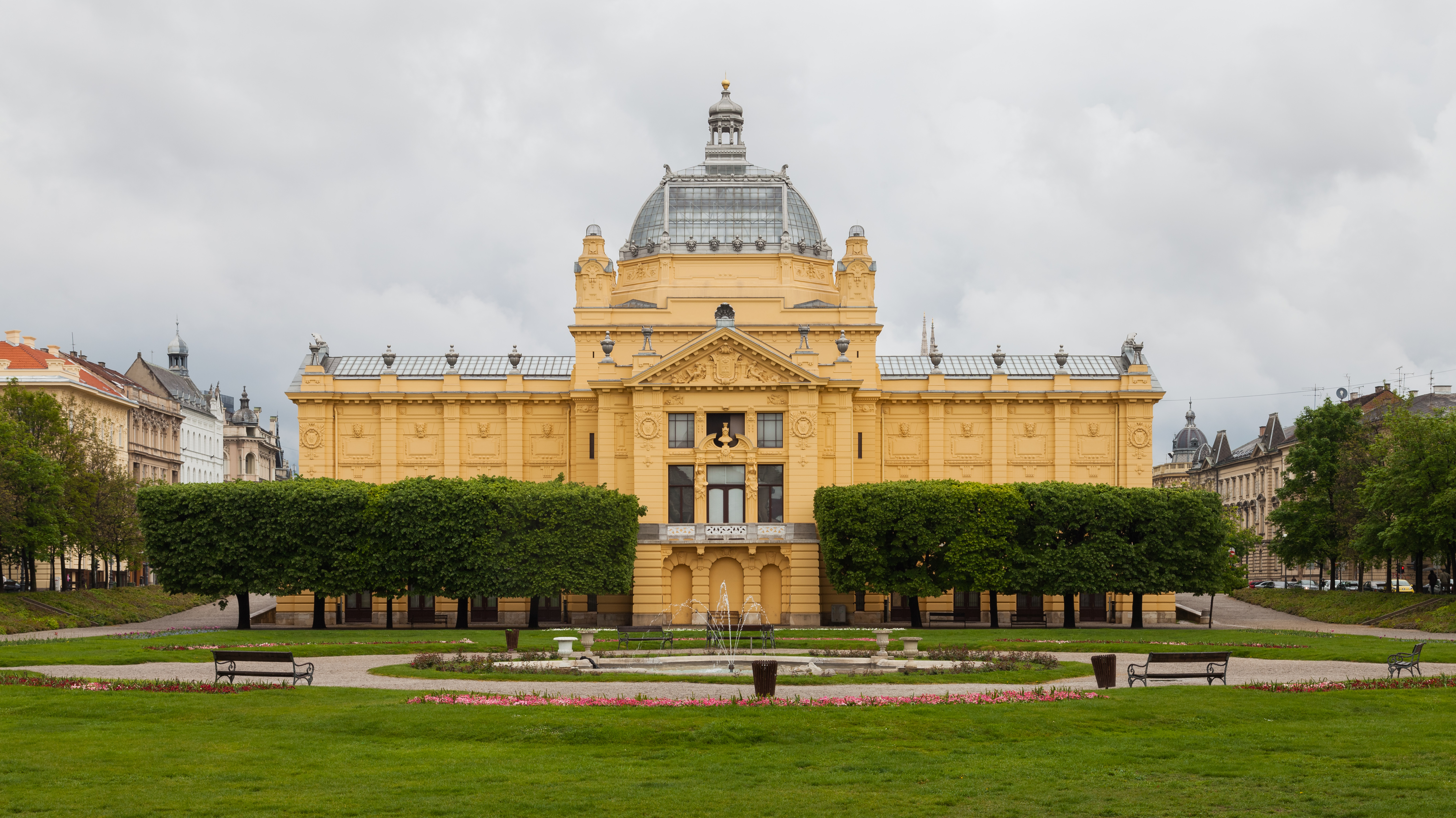 Art Pavillon, Zagreb, Croatia